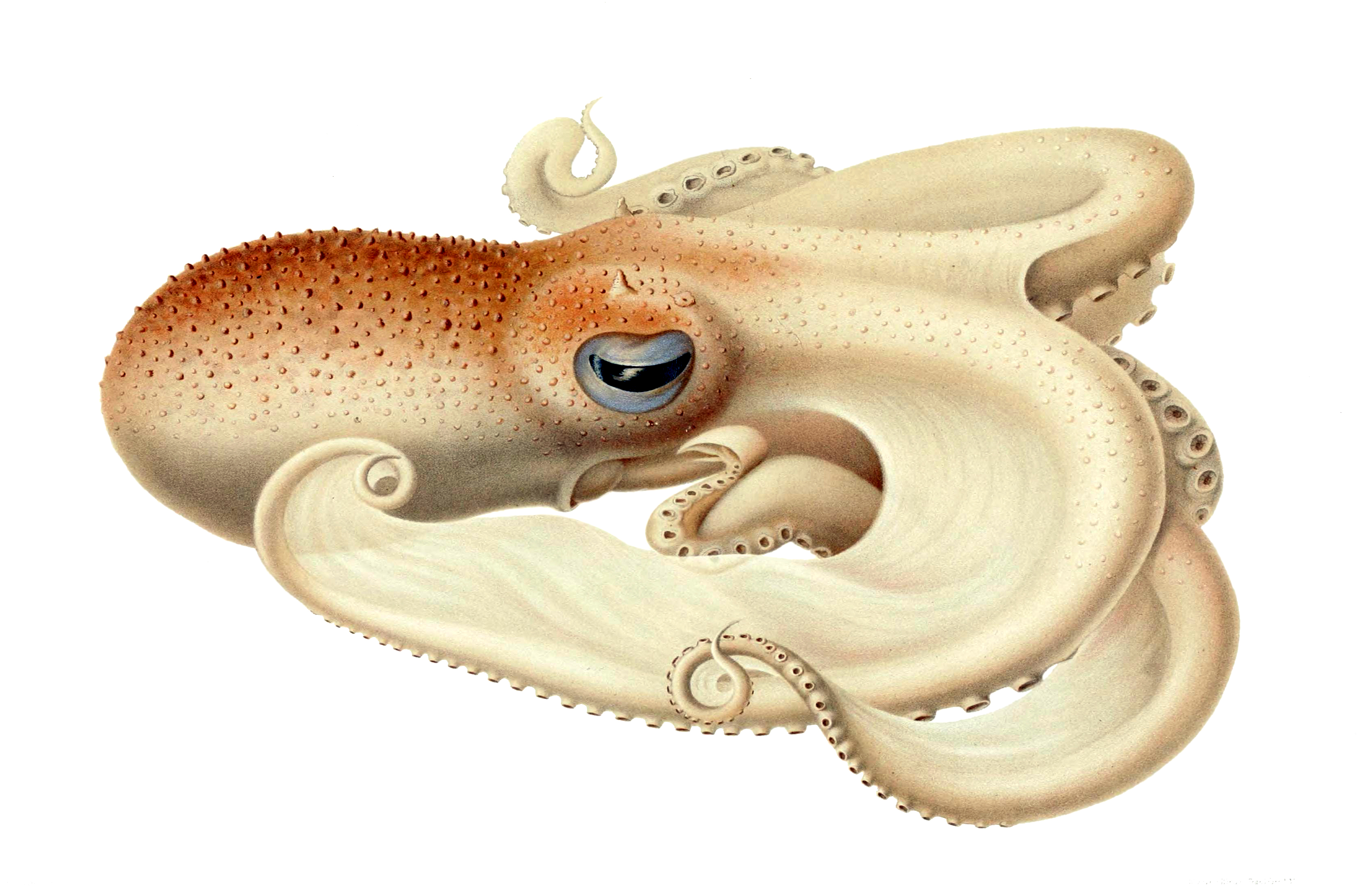 Illustration of the then newly discovered genus and species Velodona togata (this is the subspecies Velodona togata togata, which was the original of the two subspecies discovered to date) in the 1915 book that first described the species, Die Cephalopoden.